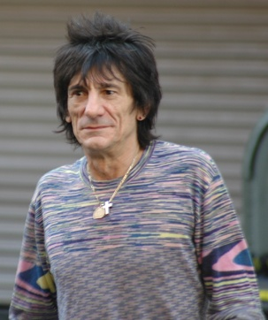 Ron Wood, The Rolling Stones guitarist on October 14, 2005 in Atlanta for the shooting of a music video